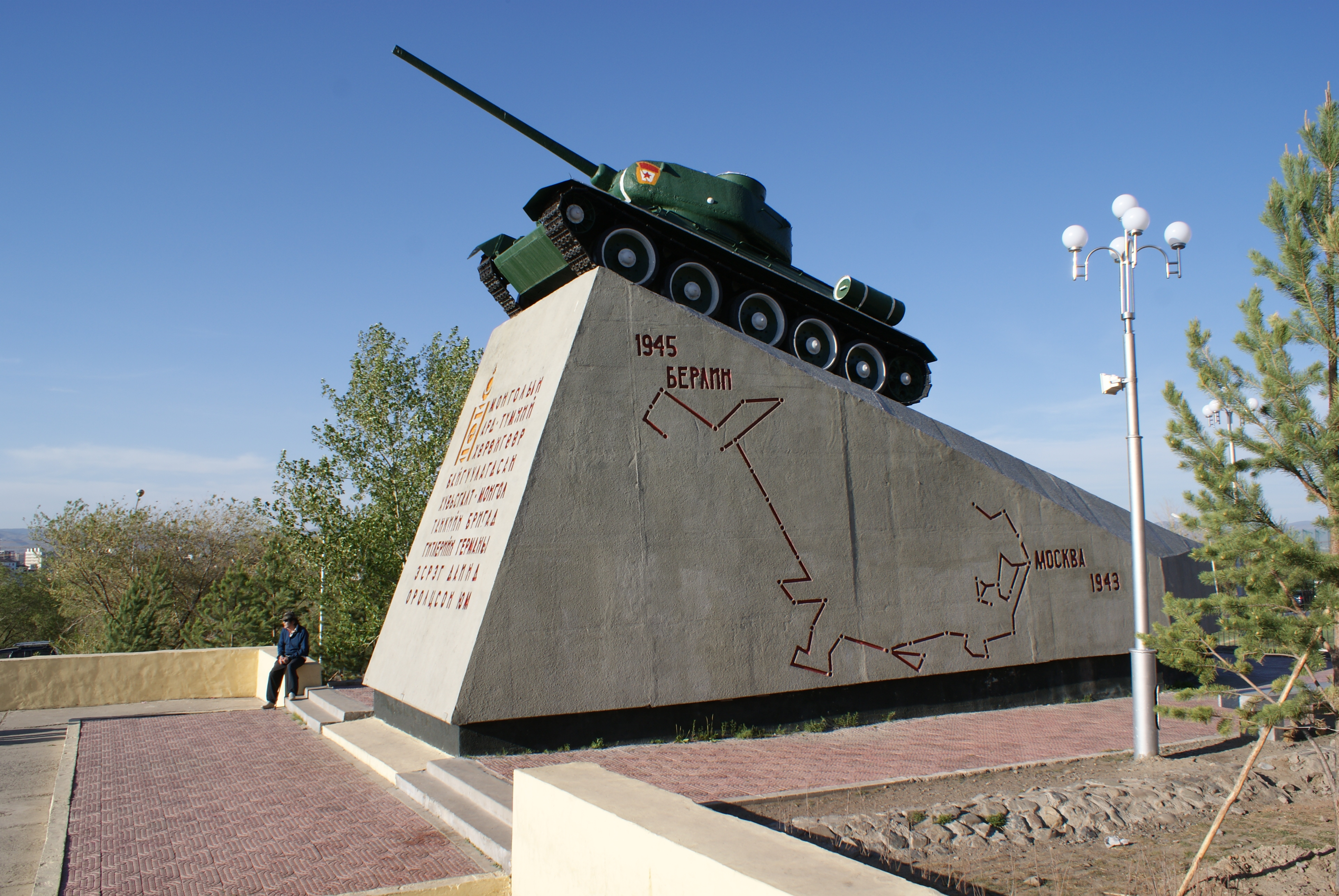 A World War II memorial in Ulan Bator, featuring a T-34-85 tank.